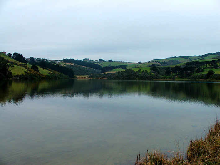 The Bottom Lagoon at Tomahawk, Dunedin, New Zealand. Photographed 14 june 2009